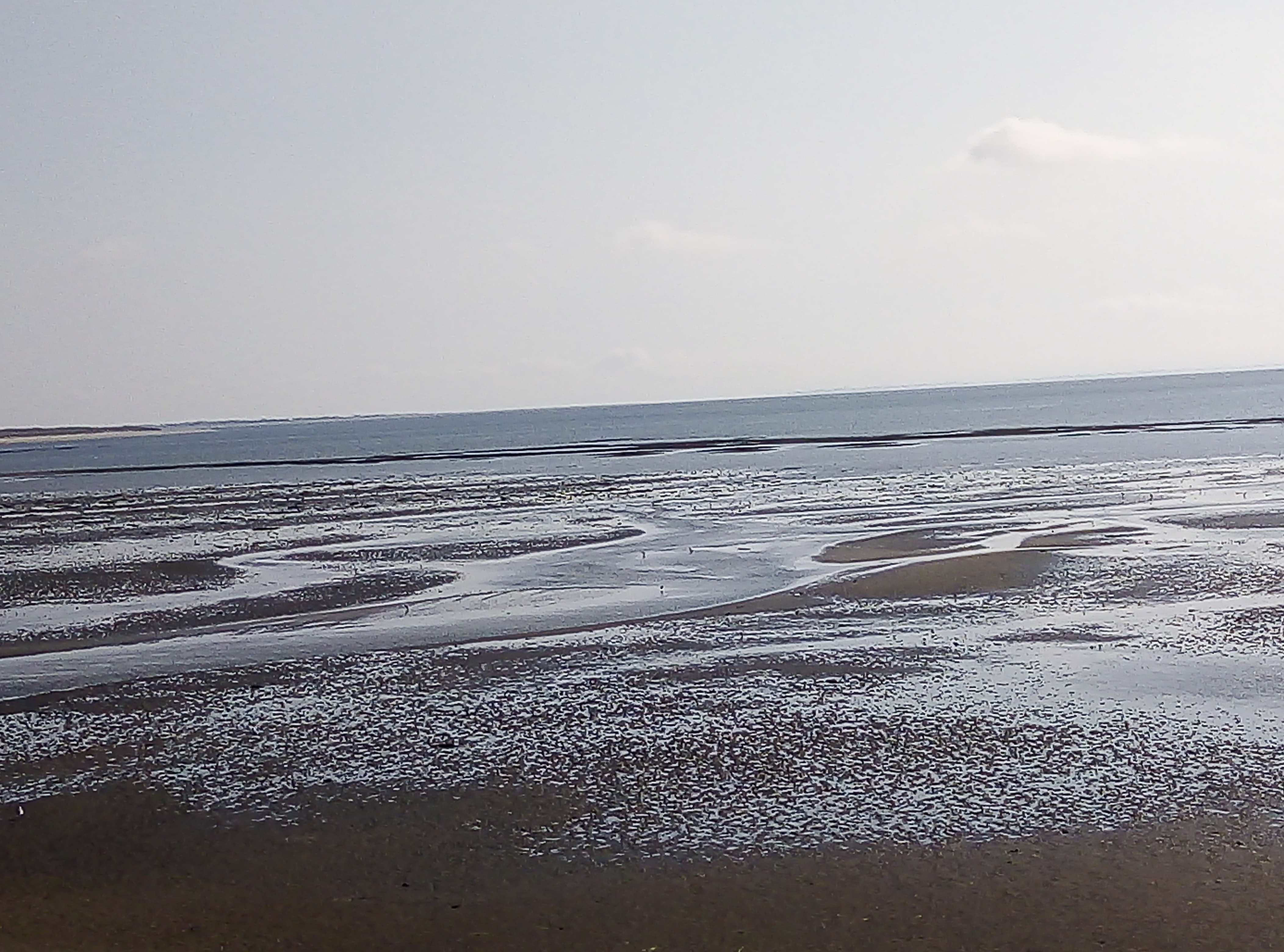 View of the landscapes of the island of Sylt (the bay Königshafen)